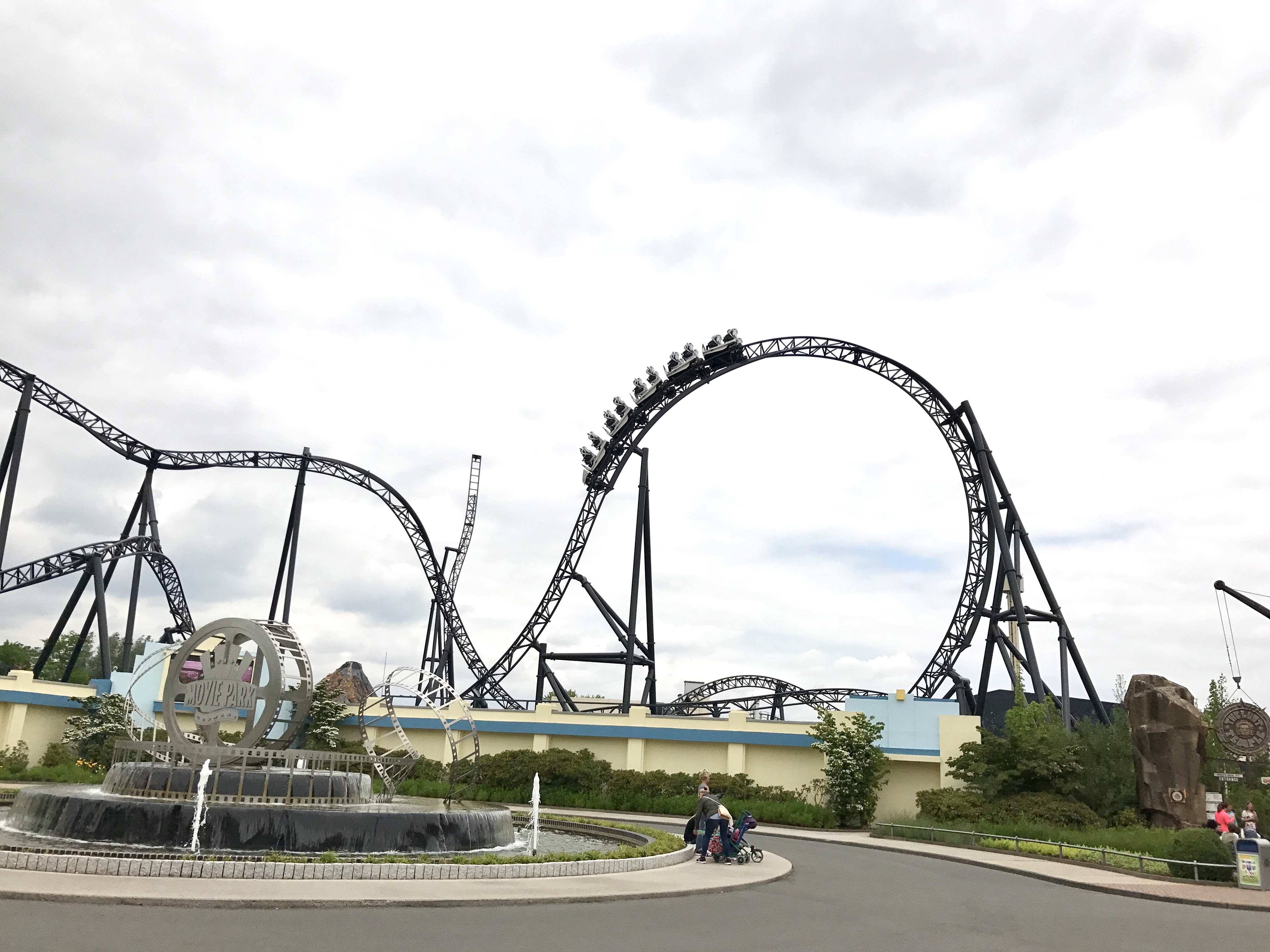 Star Trek: Operation Enterprise's first Immelmann, as seen from the entry plaza.